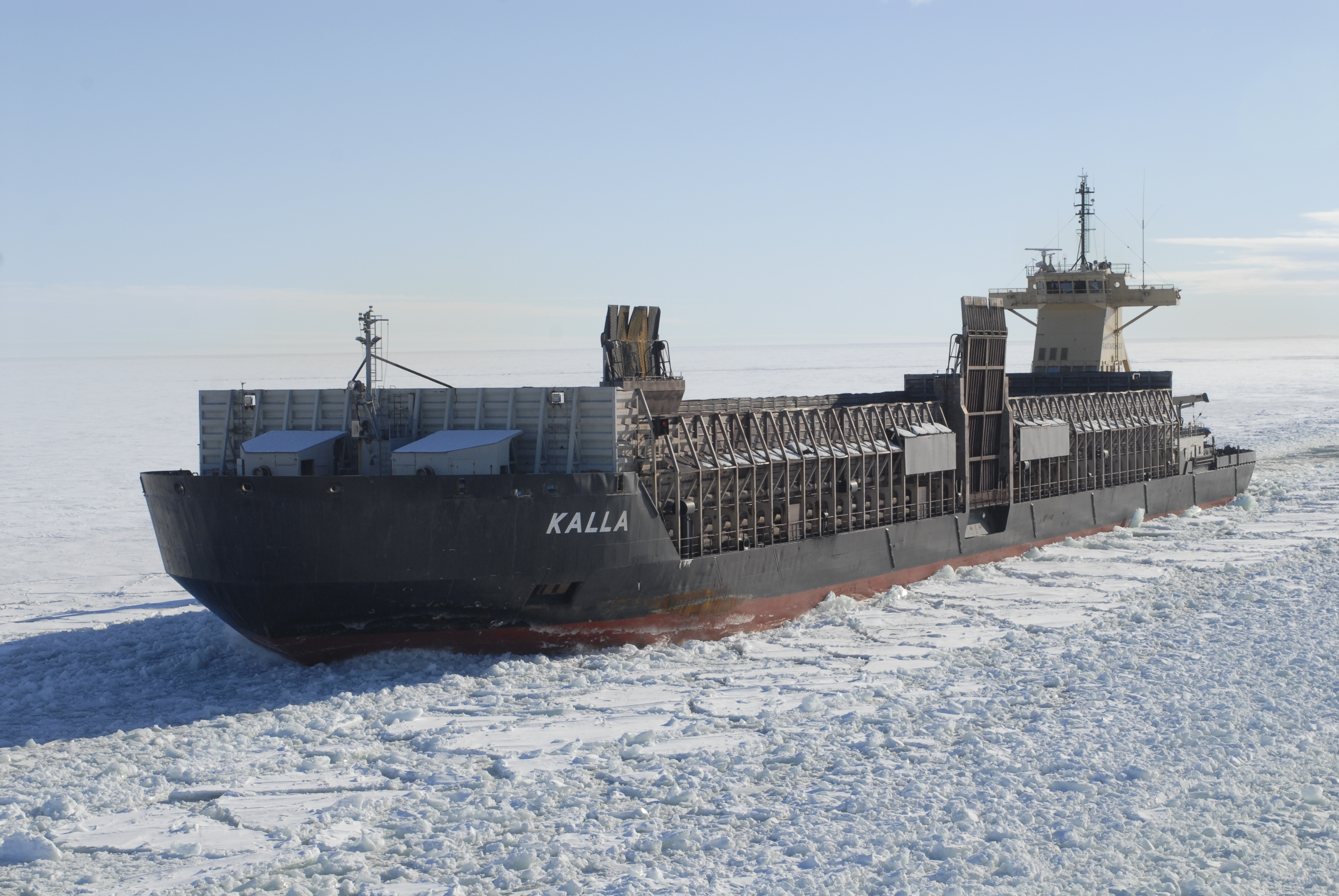 Pusher Rautaruukki (IMO 8418174) and barge Kalla outside Rödkallen, Luleå, Sweden, on 14 March 2011.